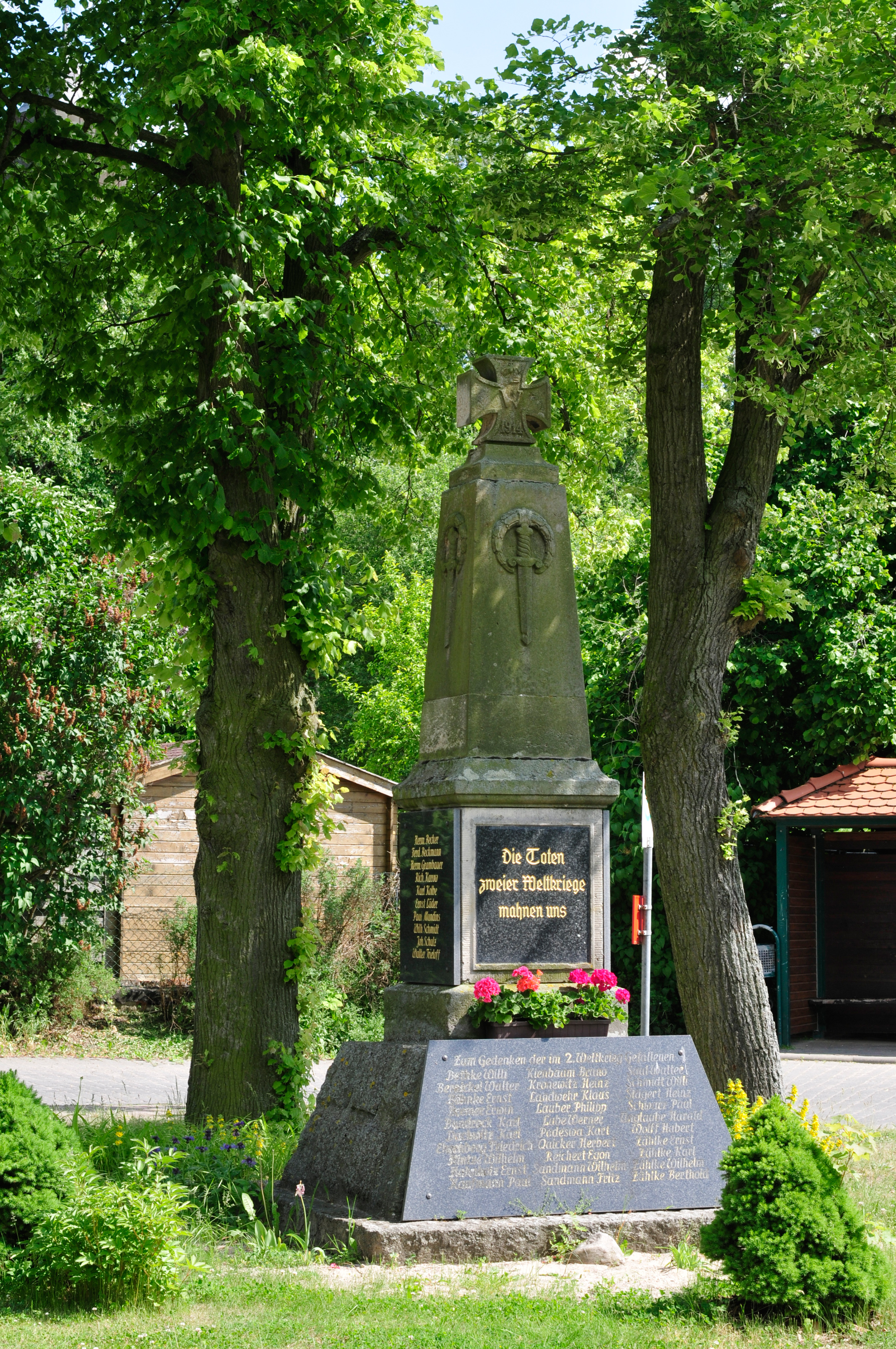 village Biesenbrow in Germany Kriegerdenkmal